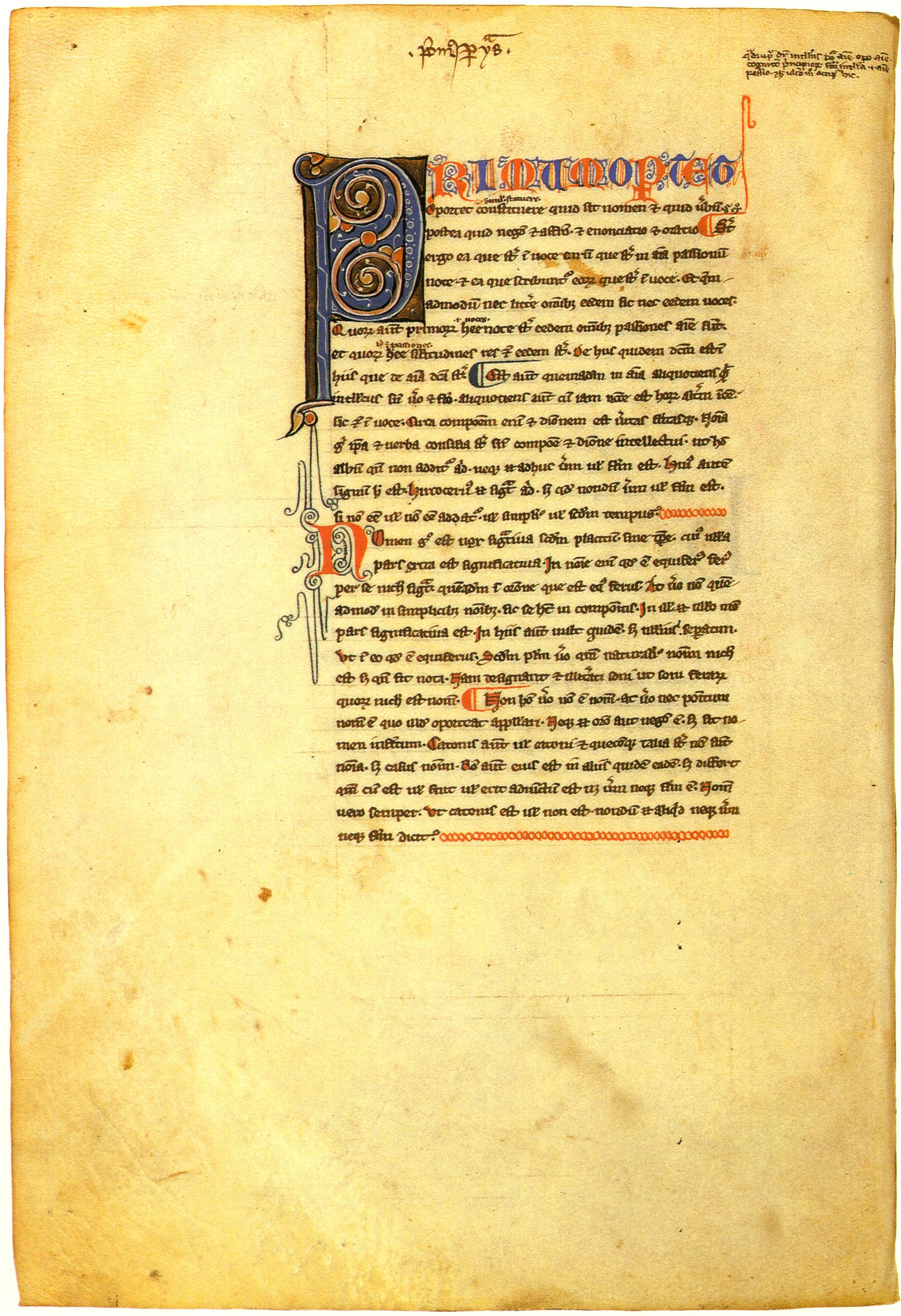 The beginning of Aristotle’s De interpretatione in the Latin translation of Boethius. Biblioteca Apostolica Vaticana, Vaticanus Palatinus lat. 988, fol. 21v.